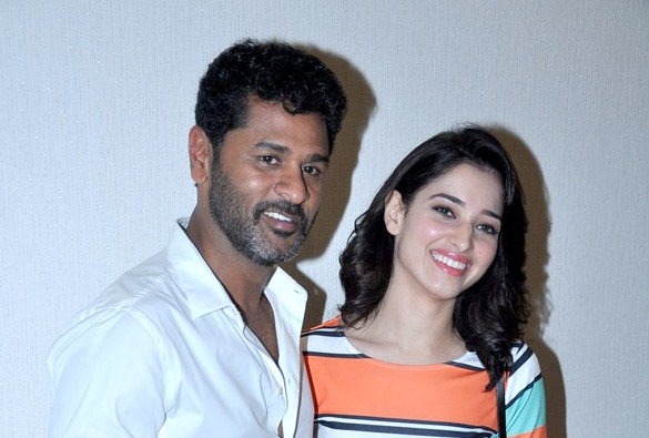 Prabhu Deva and Tamannaah at the screening of Oopiri (2016) in Mumbai, India. Cropped from the original